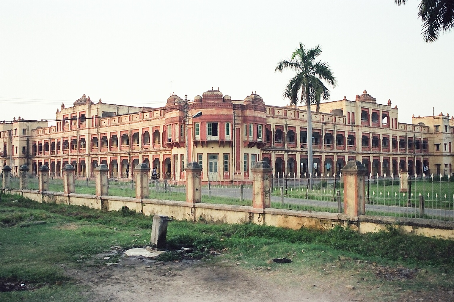 One of the student hostel for boys.